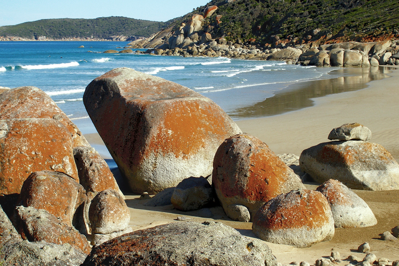 Wilsons Promontory National Park, Australia, rocky beach